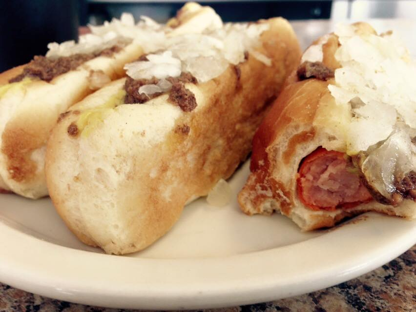 Three "all the way" from Wein-O-Rama, 1009 Oaklawn Ave, Cranston, RI 02920